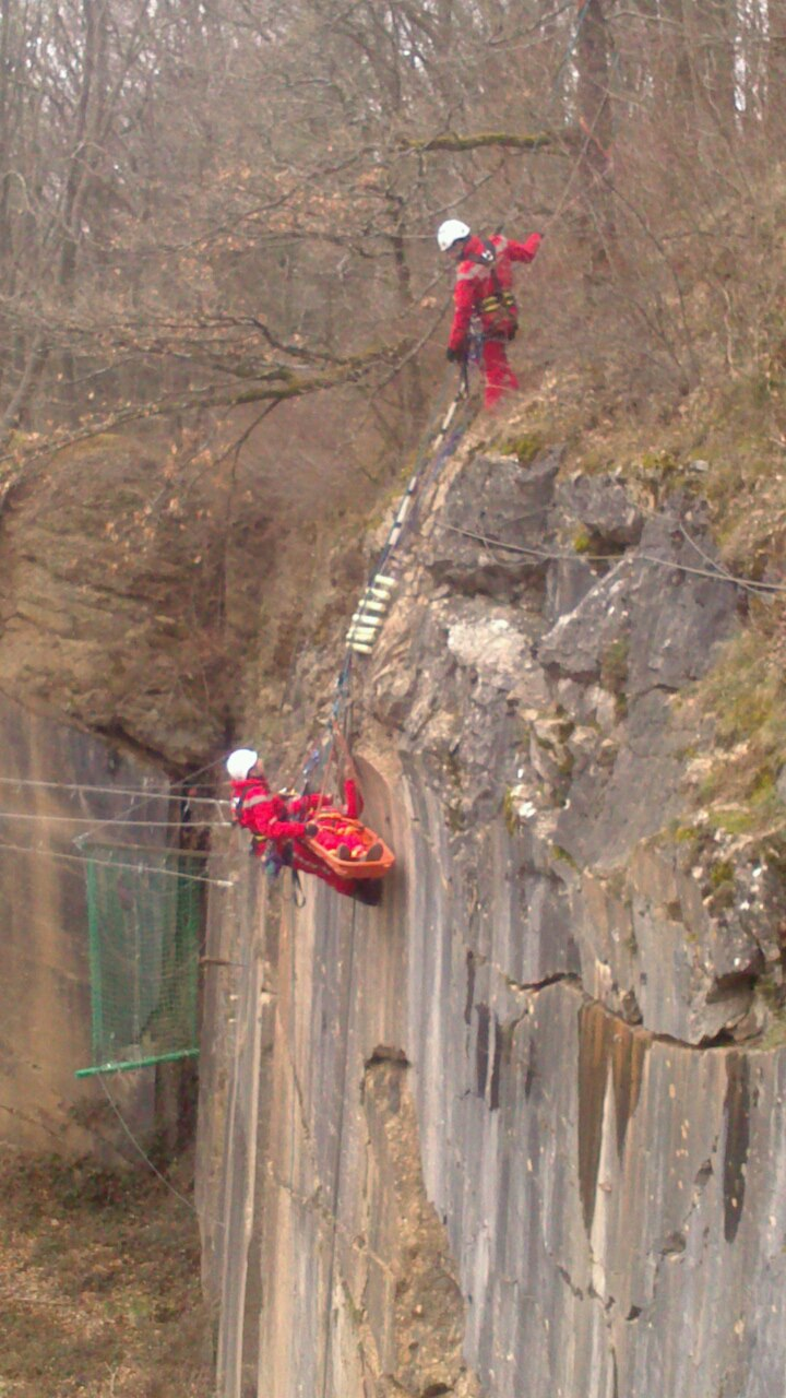 exercise fire departement Antwerpen